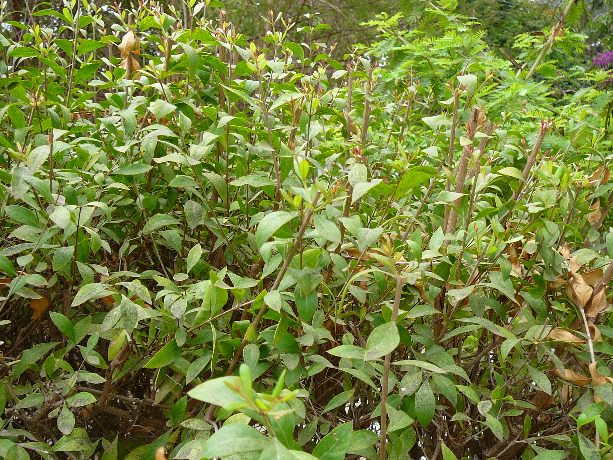 Henna